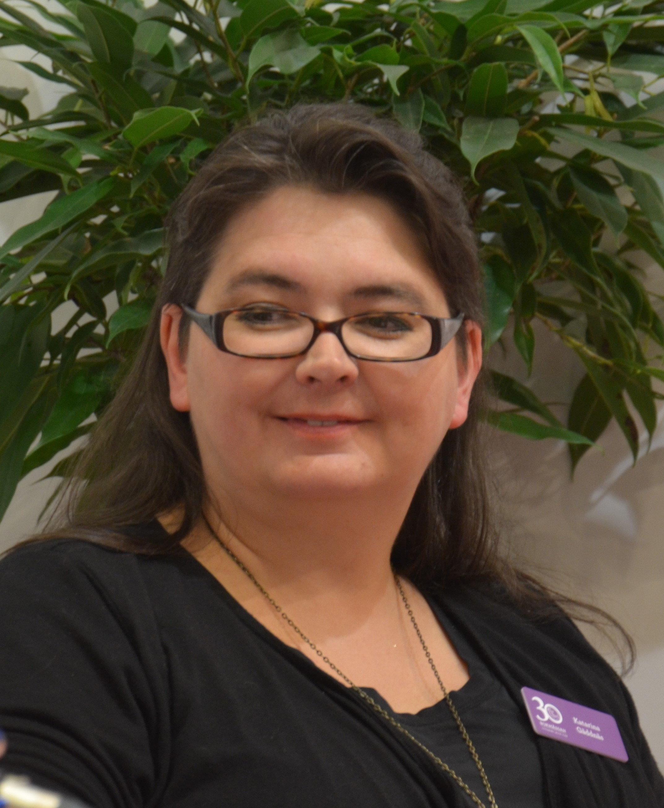 Katarina Gäddnäs